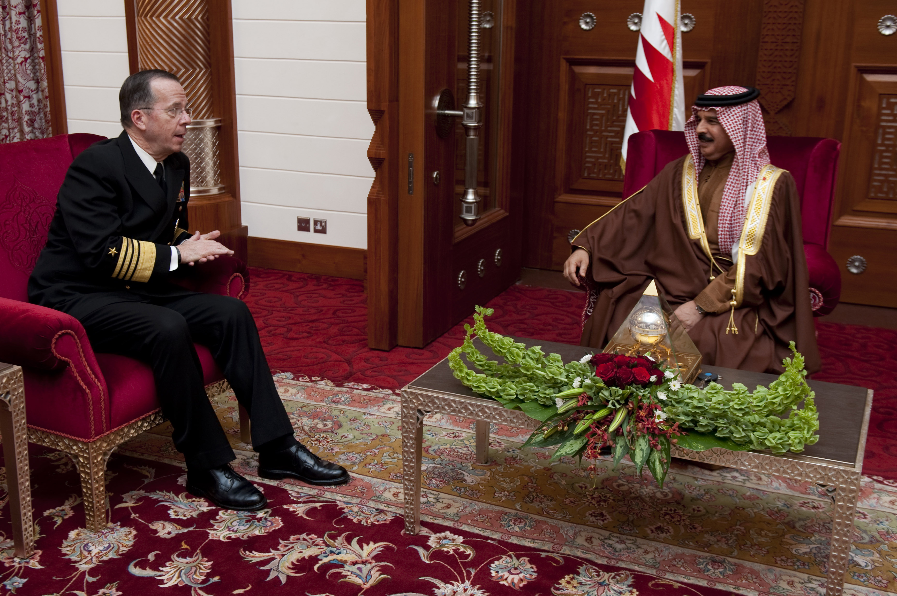 Chairman of the Joint Chiefs of Staff Adm. Mike Mullen, U.S. Navy, visits Manama, Bahrain, on Feb. 24, 2011. Mullen is on a weeklong trip through the Middle East to reassure friends and allies of the U.S. commitment to regional stability.